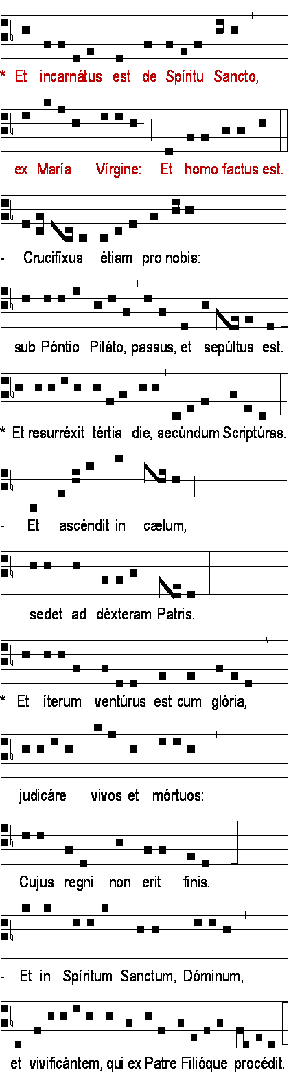 Credo III (image b)